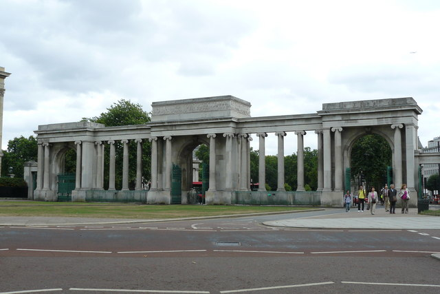 Hyde Park - Grand Entrance Photographed from inside Hyde Park.